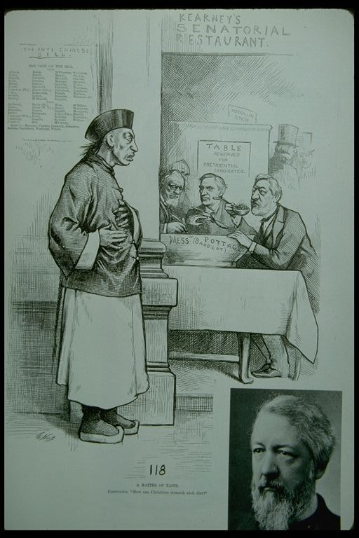 Cartoon by Thomas Nast. A Matter of Taste", published March 15, 1879 (seen at right), John Confucius expresses disapproval of Senator James G. Blaine for his support of the Chinese Exclusion Act. Blaine is shown dining in "Kearney's Senatorial Restaurant"—a reference to Denis Kearney, the leader of a violent anti-Chinese movement in California. John Confucius asks, "How can Christians stomach such diet?"